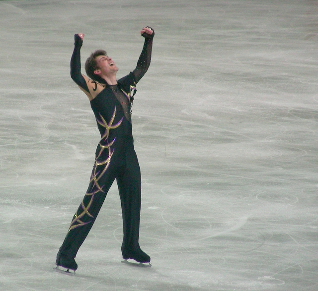 Brian Joubert on the 2007 European Figure Skating Championships in Warsaw - free skate